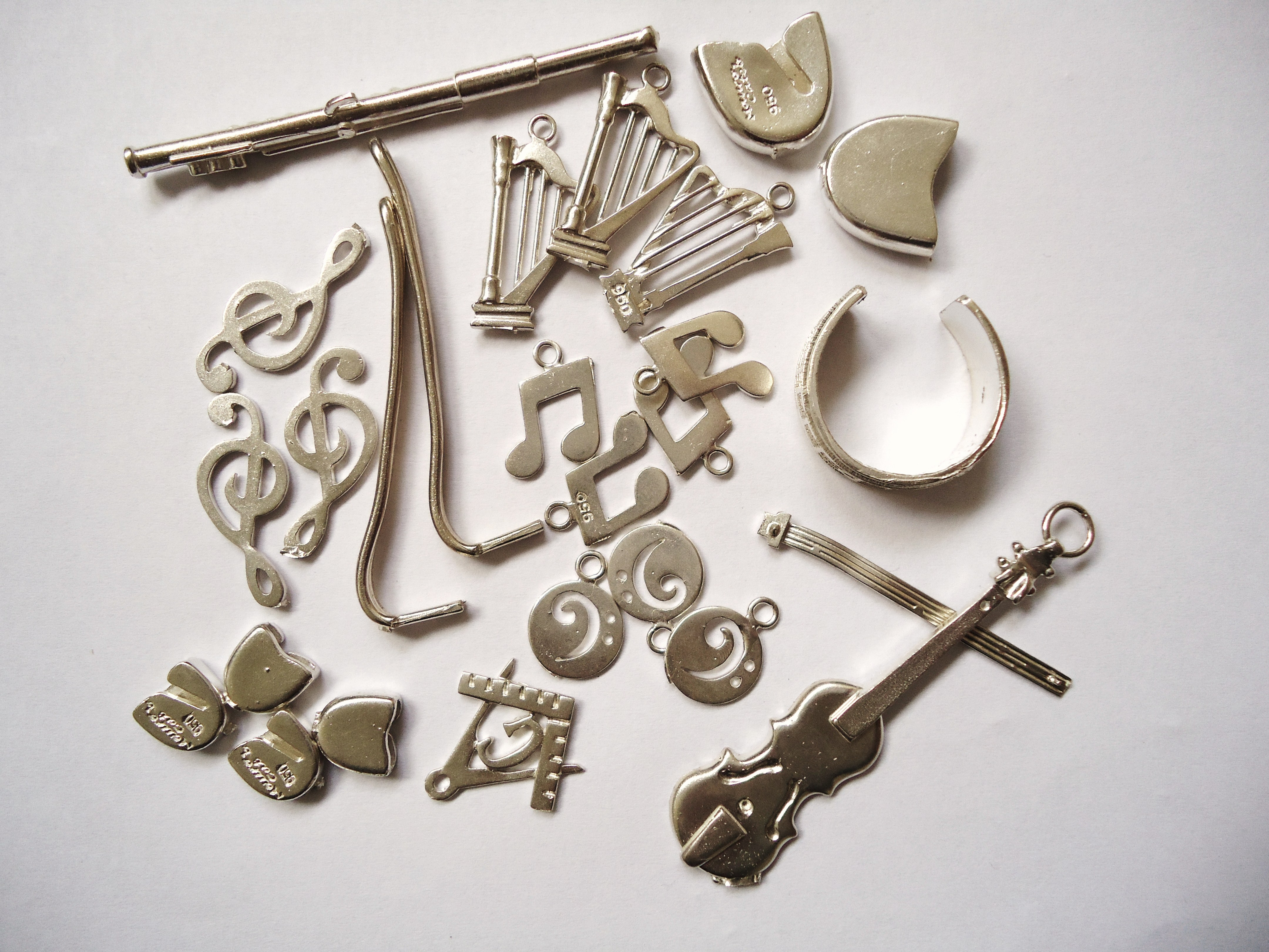 Cast 950-silver pieces for jewellery. Photo: Mauro Cateb, Brazilian jeweler and silversmith.